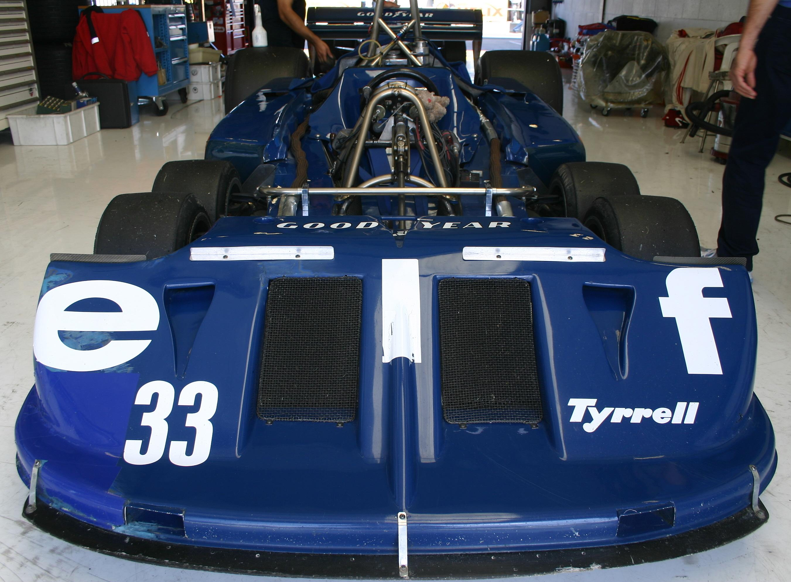 Tyrrell P34